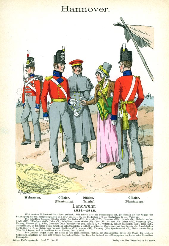 hanoverian landwehr 1815